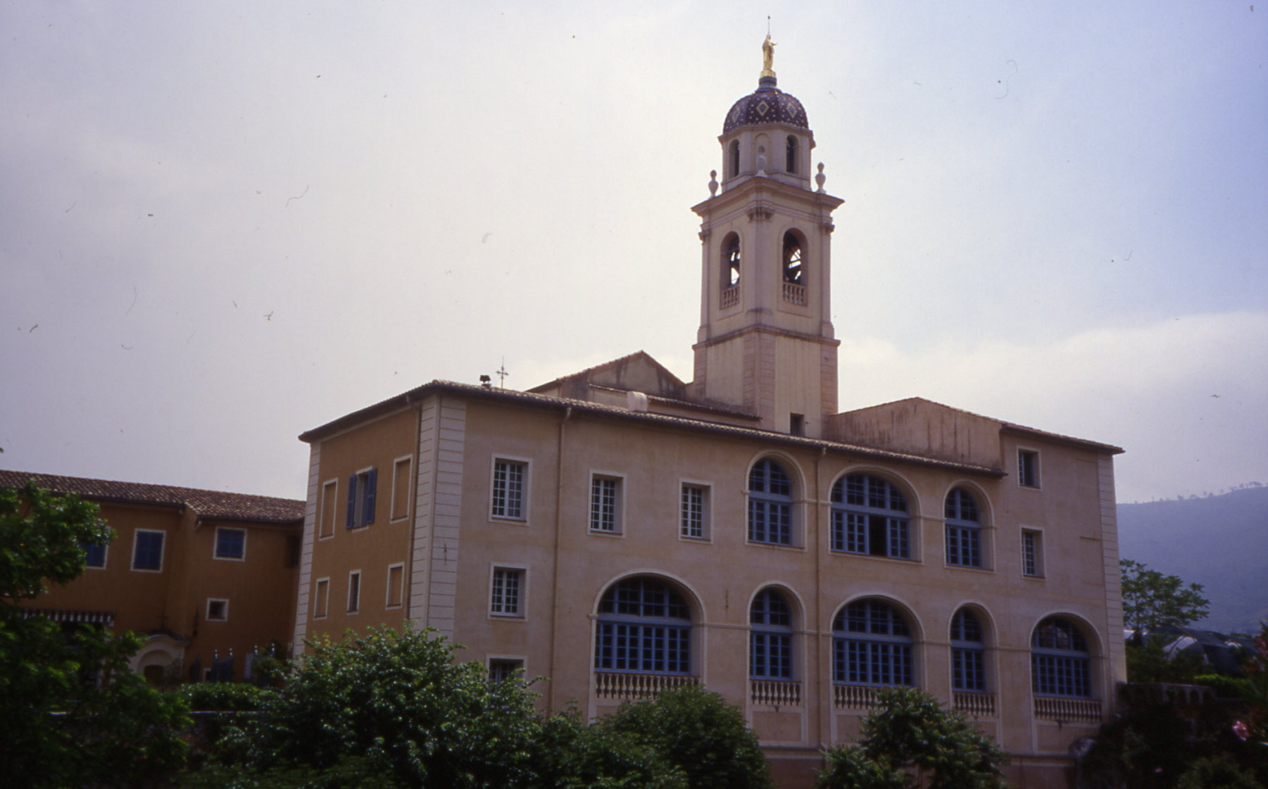 View of Notre Dame de Laghet (La Trinité, Alpes Maritimes, France)